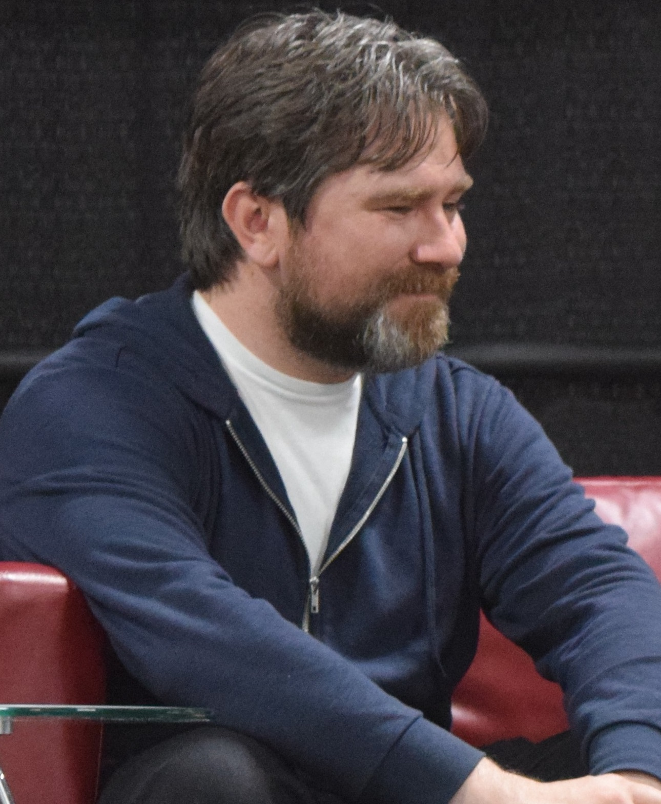 Roger Clark at Great Philadelphia Comic-Con 2019.